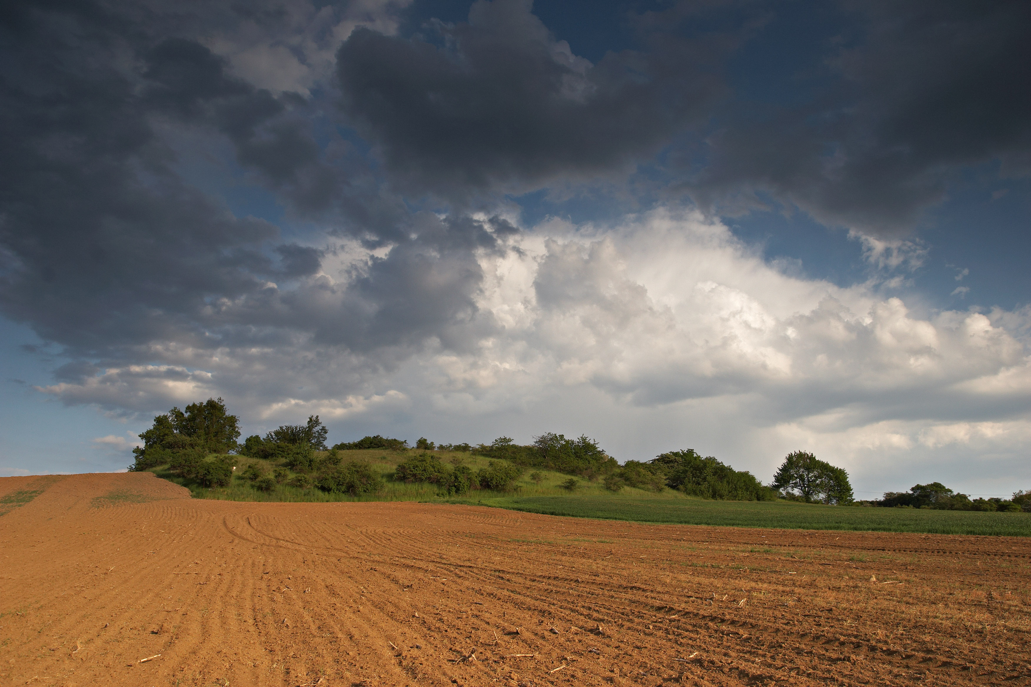 Patočka's hill